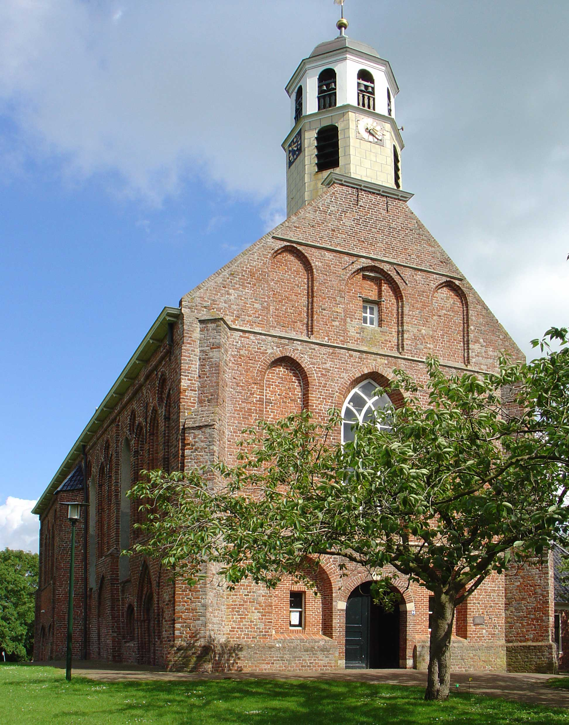 Church of Ten Boer, Groningen, Netherlands